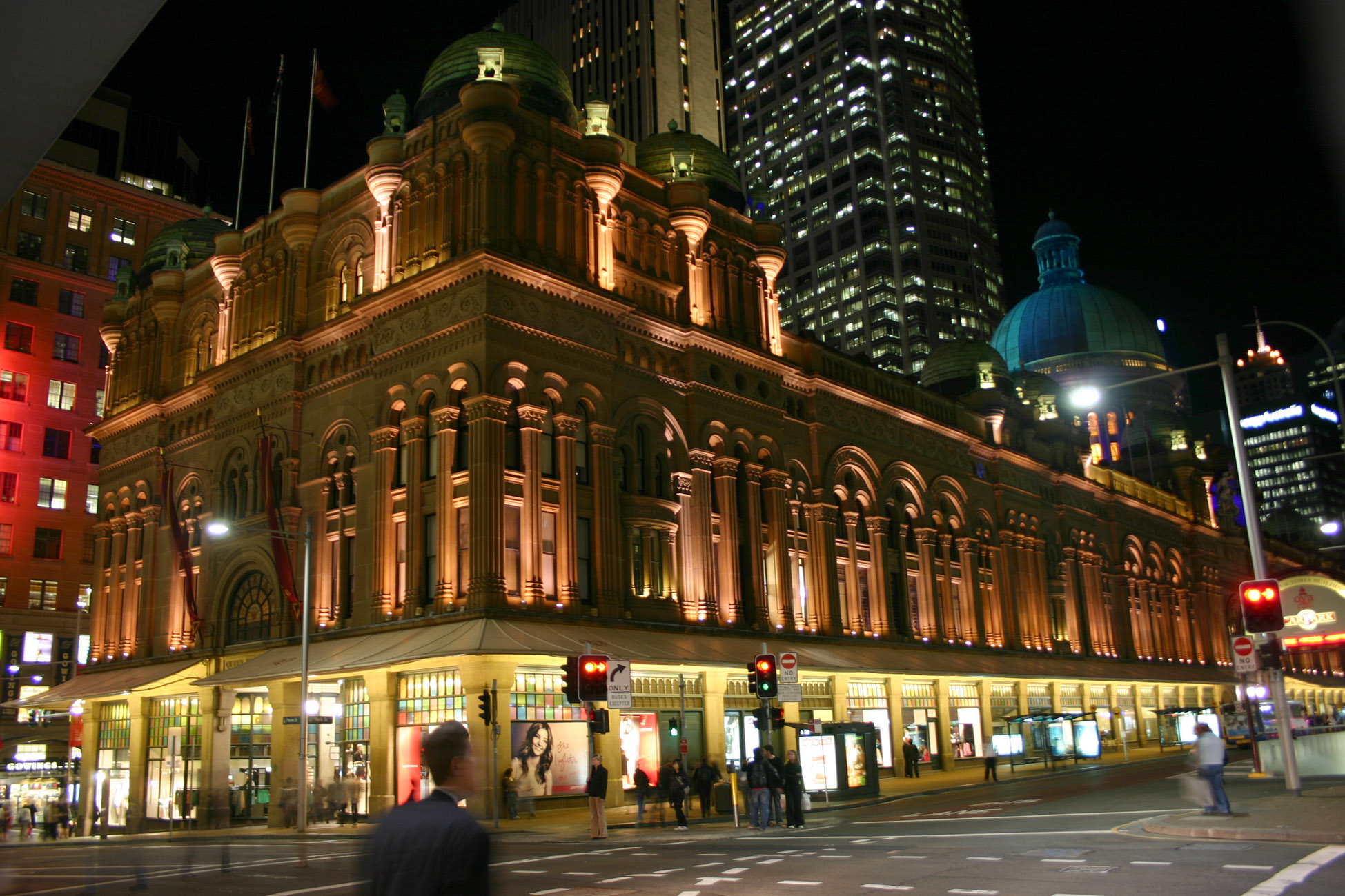 Queen Victoria Building, Sydney at Night